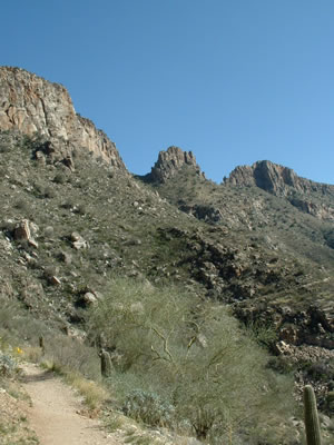 A view of Blackett's Ridge from the Phoneline trail in Sabino Canyon.